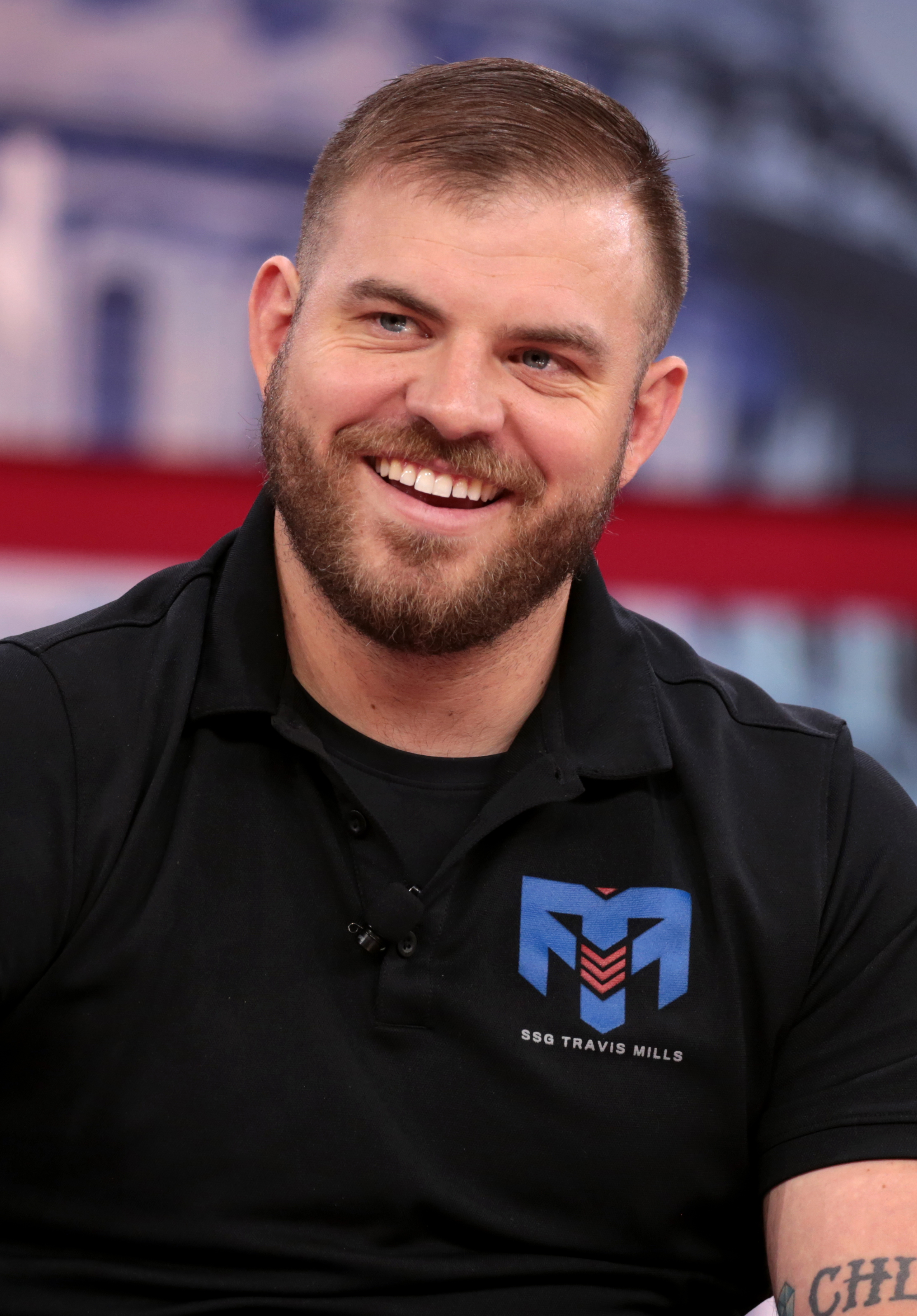 Travis Mills speaking at the 2018 CPAC in National Harbor, Maryland.